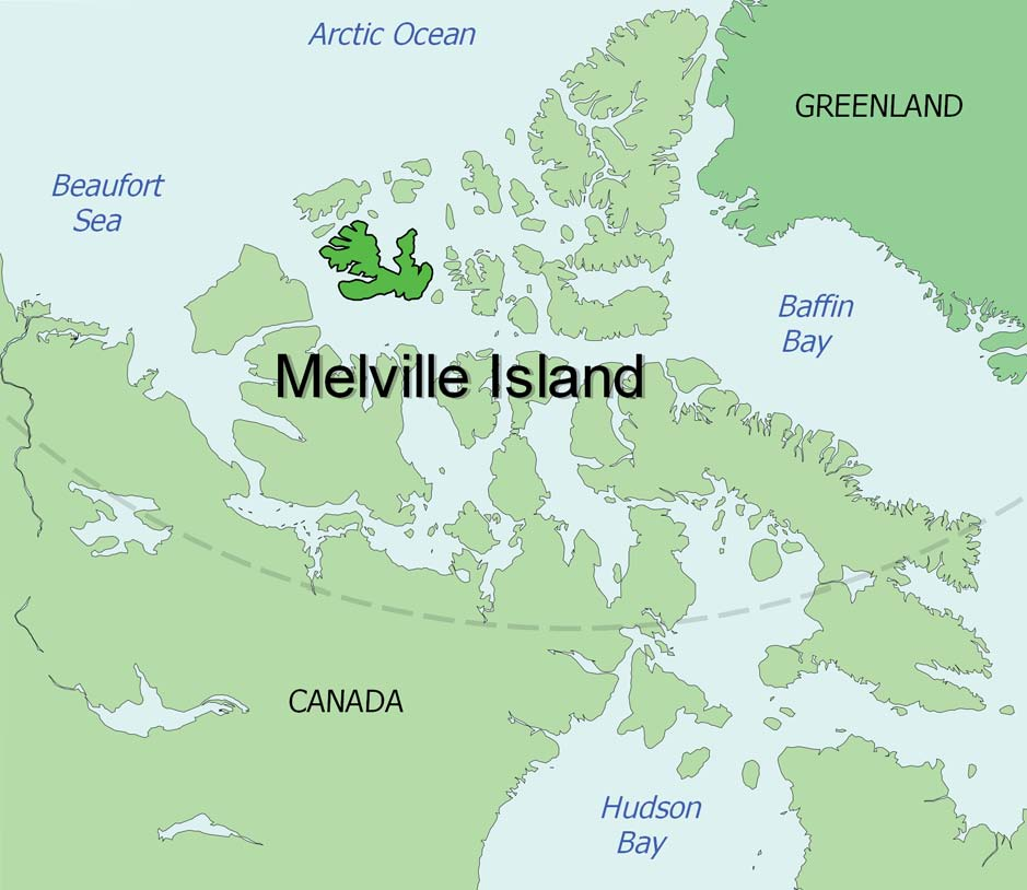 Created based on images from the CIA's World Fact Book.